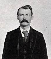 Norman Adolphus Mozley, US Representative from Missouri